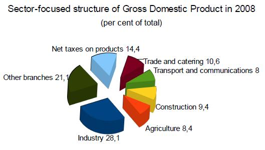 Sector-focused_structure_of_Gross_Domestic_Product_in_Belarus in 2008 Source:National Statistical Committee of the Republic of Belarus